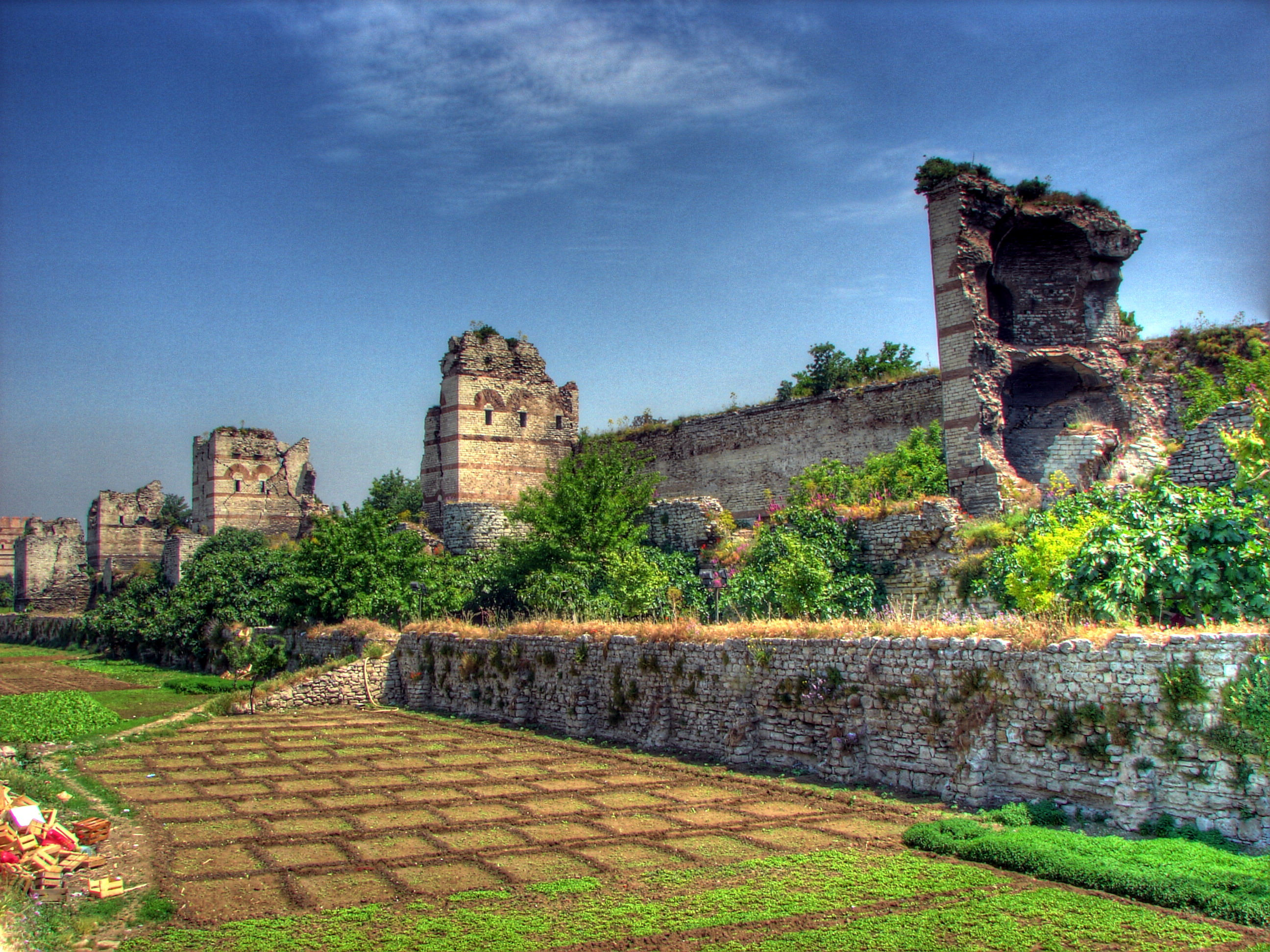 Walls of Constantinople, Istanbul